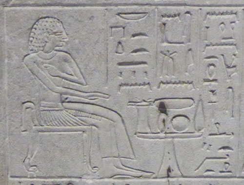 Image of the Ancient Egyptian treasurer Senebi, on stela Vienna, Kunsthistorisches Museum no. 140; 13th Dynasty, about reign of king Khaneferre Sobekhoteo